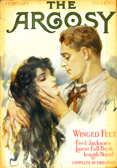 The Argosy, February 1914